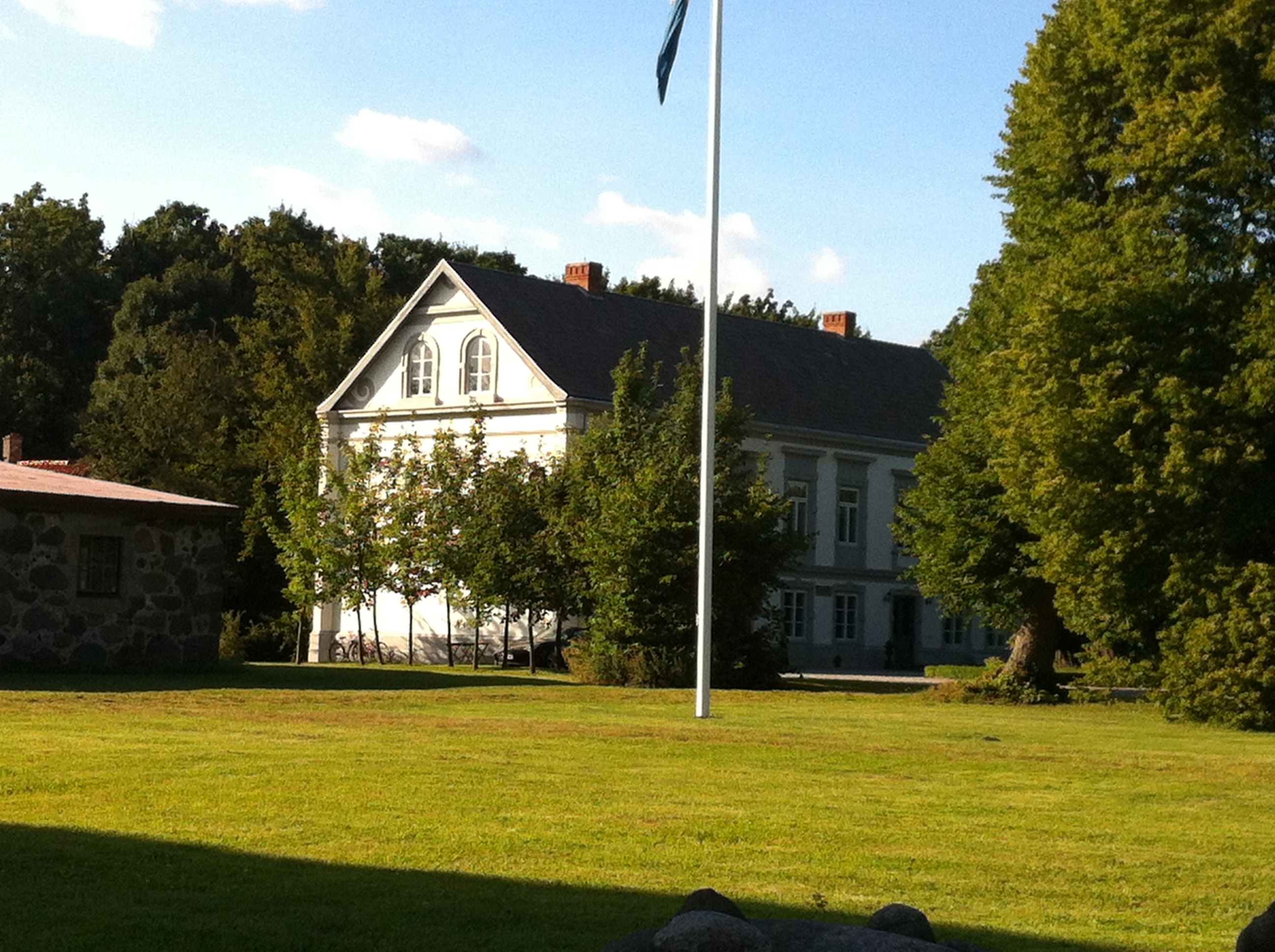 Westerstads mansion in Scania, Sweden. A noble house from the 18th century.